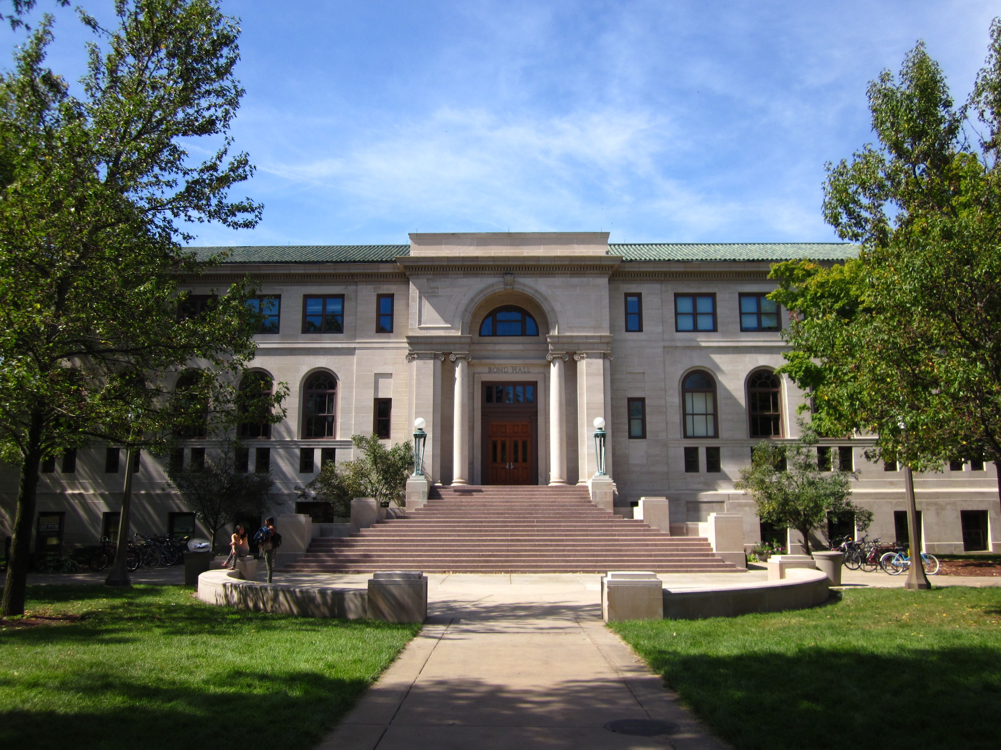 Bond Hall is a building on the University of Notre Dame campus. It was constructed as the Lemonnier Library in 1917 and served as the main campus library until 1964. The building currently houses the University of Notre Dame School of Architecture and the Architecture Library.